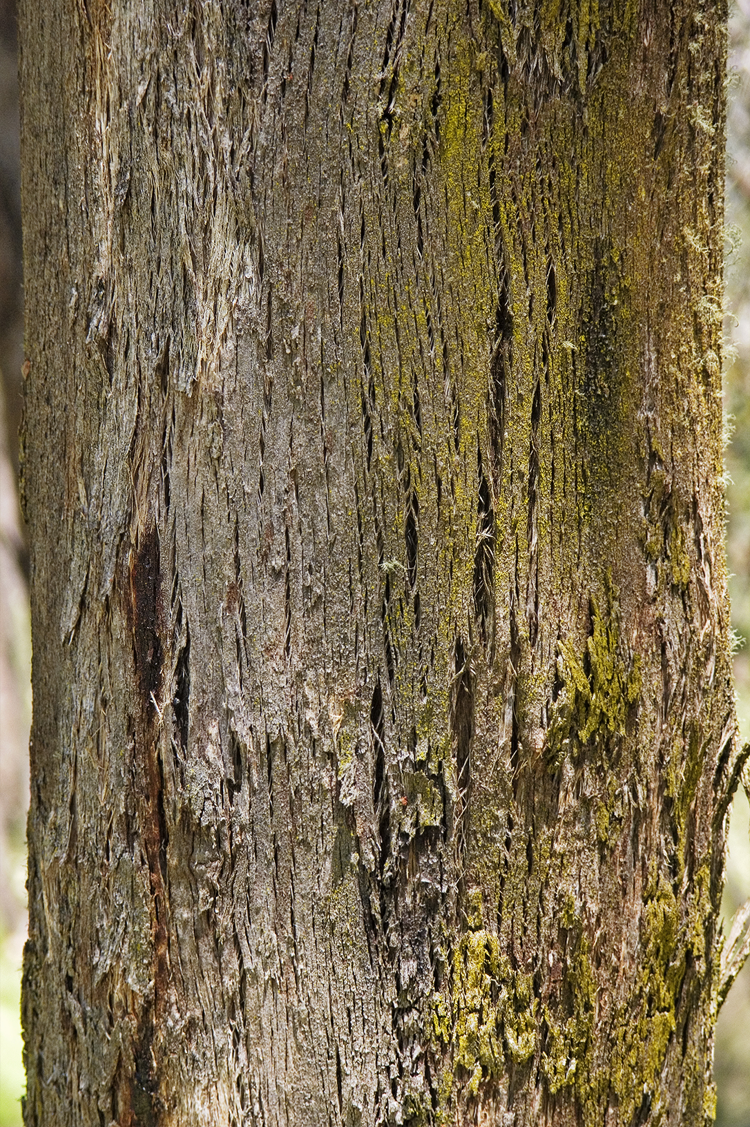 Bark and trunk detail of the Peppermint Gum (Eucalyptus radiata)